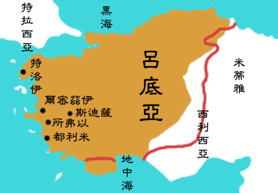 Edge of the brown area is the border of Lydia at the middle of the 6th century BC. The red line is the different border shown in the second map.